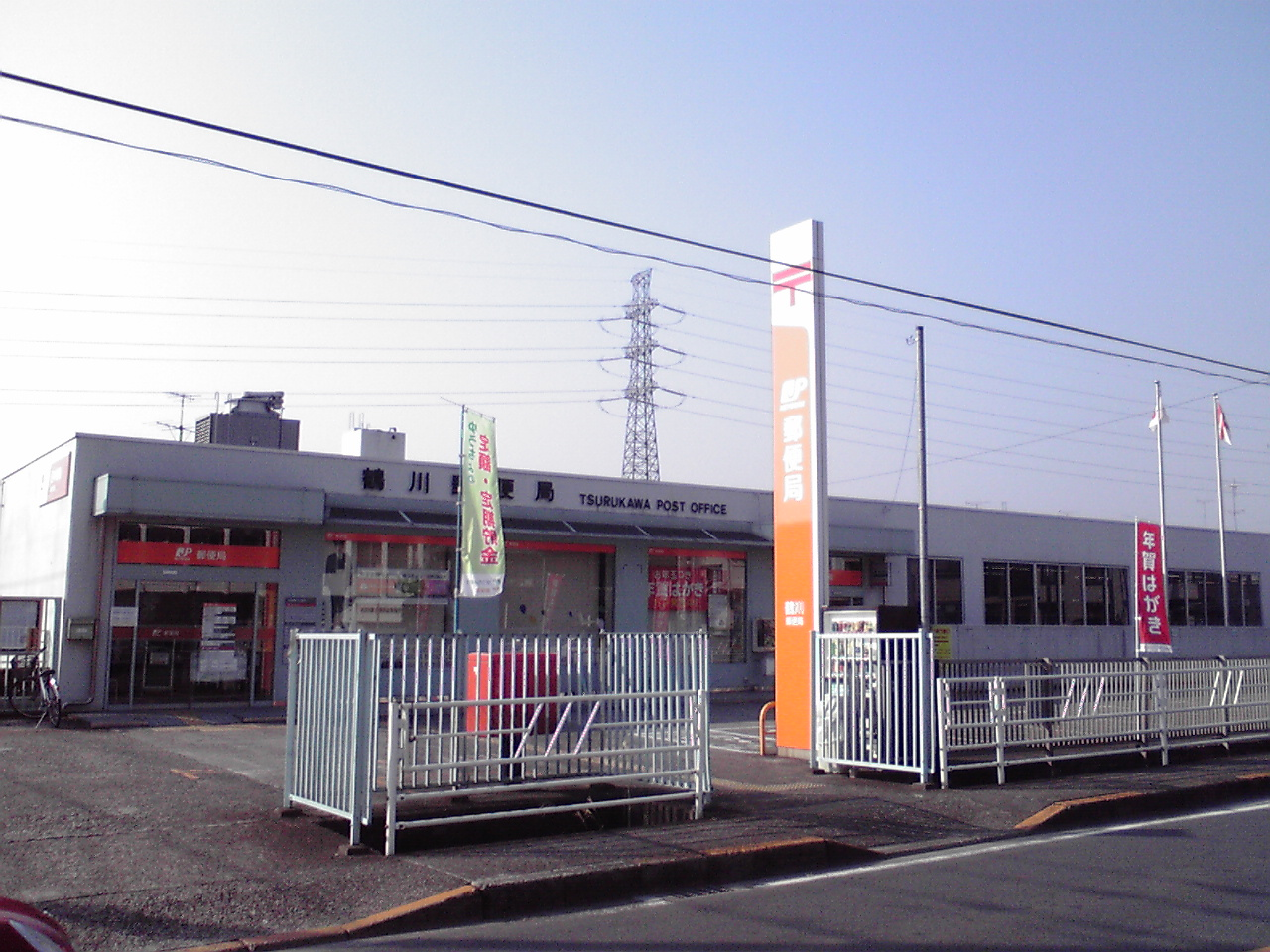 This is a post office which is located in Machida, Tokyo ,Japan.